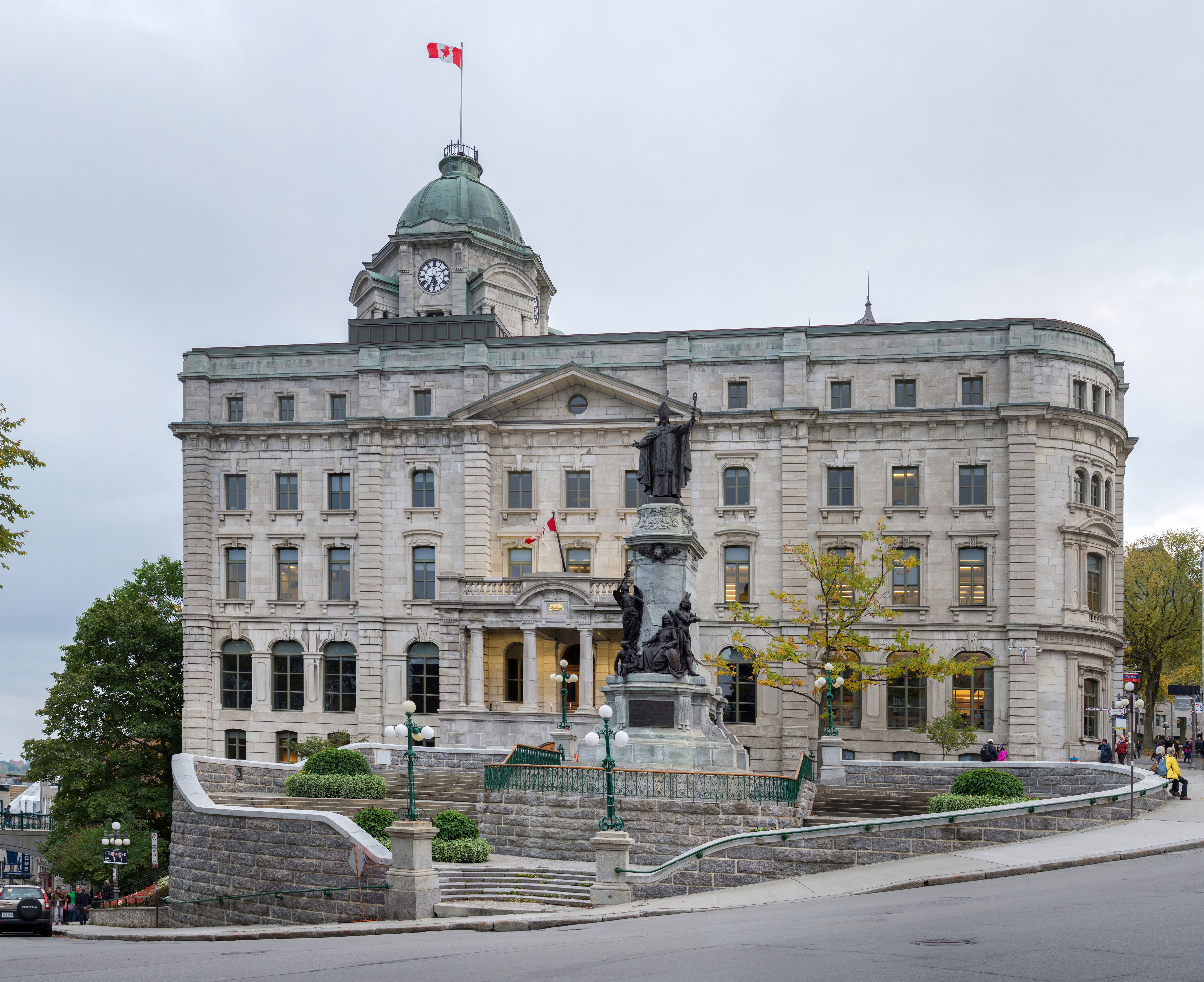 Louis S. St-Laurent Building, Old Post Office, 3 Buade Street, Québec, Quebec, Canada Historic Places Canada Post